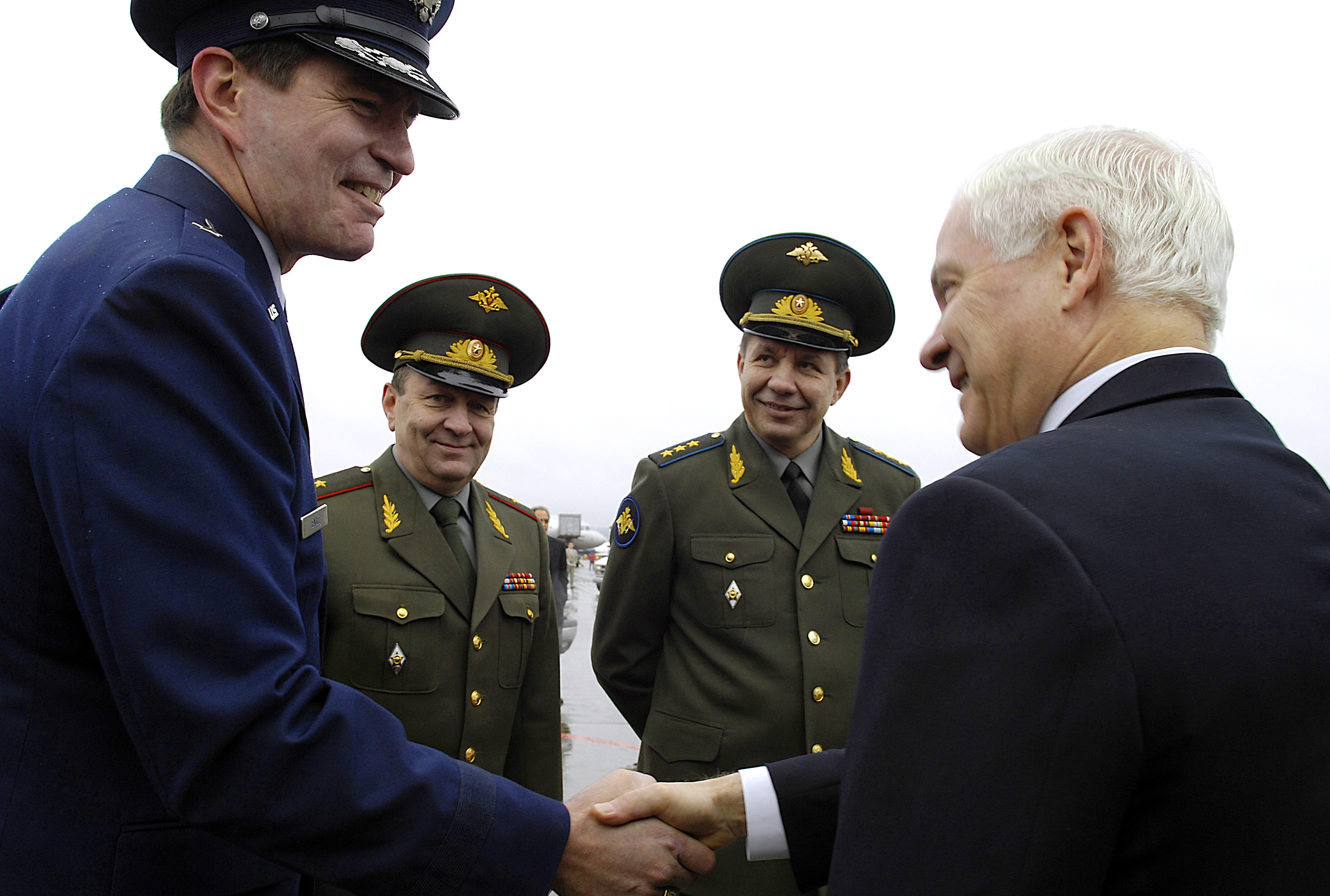 Defense Secretary Robert M. Gates meets U.S. Air Force Brig. Gen. Dan Eagle, left, defense attache, Russian General-Major Nikishin, Vladimir Ivanovich, deputy chief of International Treaties, center, and Russian General-Colonel Popovkin Vladimir Aleksandrovich, commander of RF Space Forces, right, upon his arrival in Moscow, April 23, 2007.